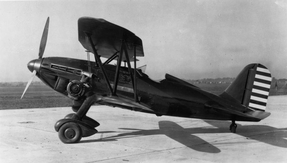 PictionID:41898716 - Title:Ray Wagner Collection Image - Catalog:16_000827 Curtiss XP-23 32-278 - Filename:16_000827 Curtiss XP-23 32-278.tif - - Ray Wagner was Archivist at the San Diego Air and Space Museum for several years and is an author of several books on aviation --- ---Please Tag these images so that the information can be permanently stored with the digital file.---Repository: San Diego Air and Space Museum